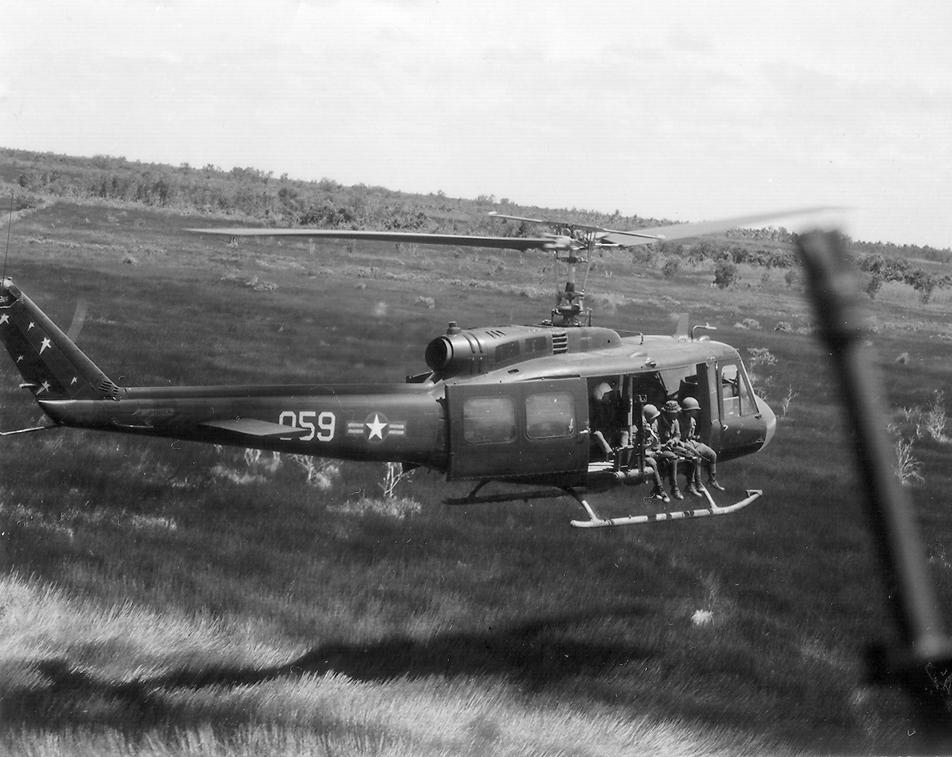 Vietnam Air Force personnel of the 211th Helicopter Squadron on a combat assault mission in a UH-1 over S.E. Asia.